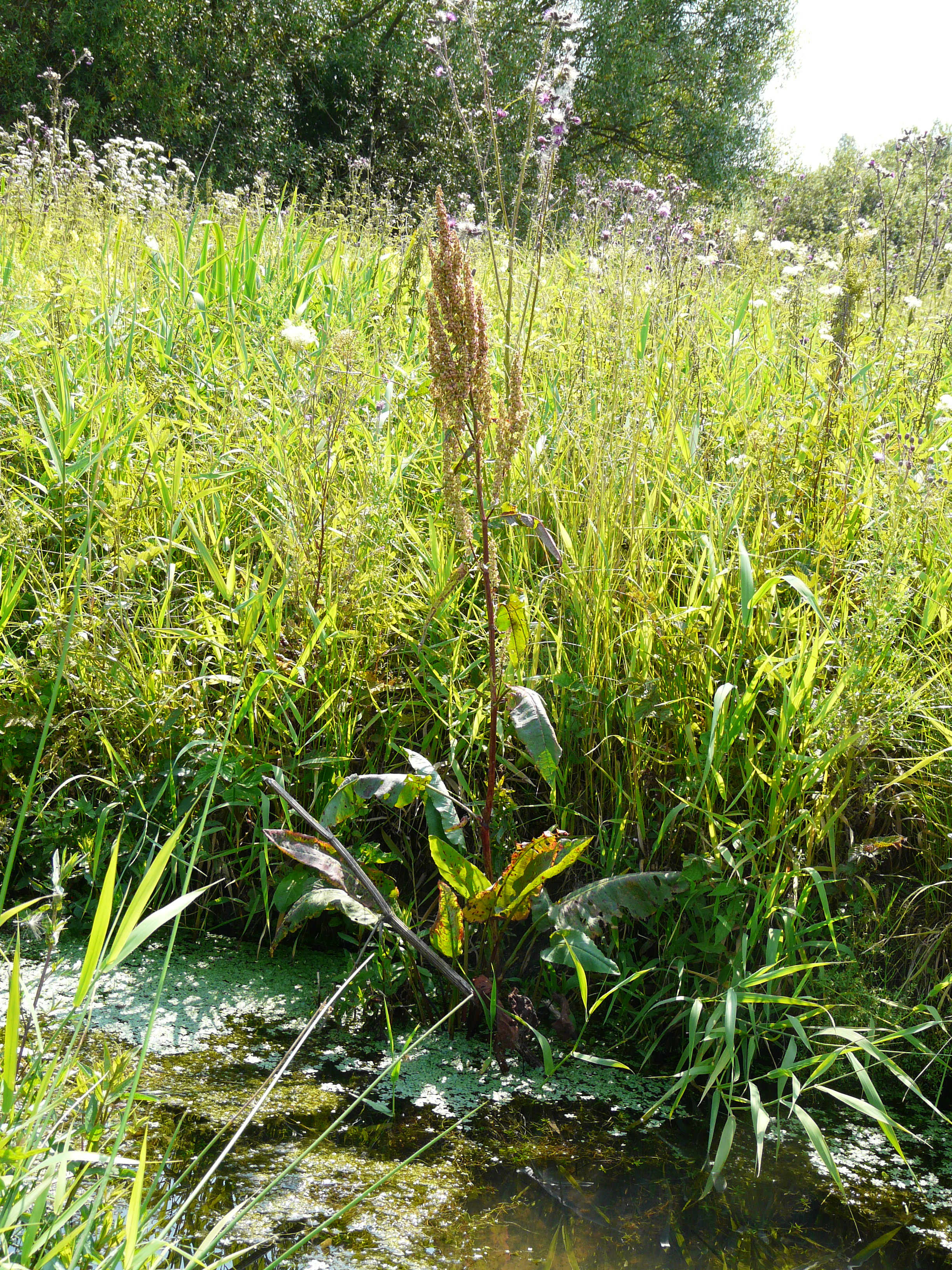 Rumex aquaticus at an ditsch in the Schwam meadow in nordhesse, Germany